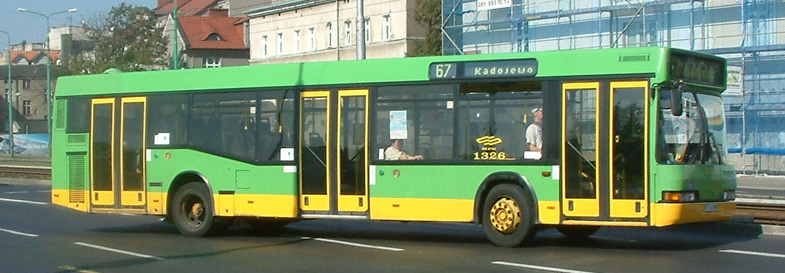 Neoplan N4016 (#1326) in Poznań, Poland. Built 1996, MPK Poznań operator.